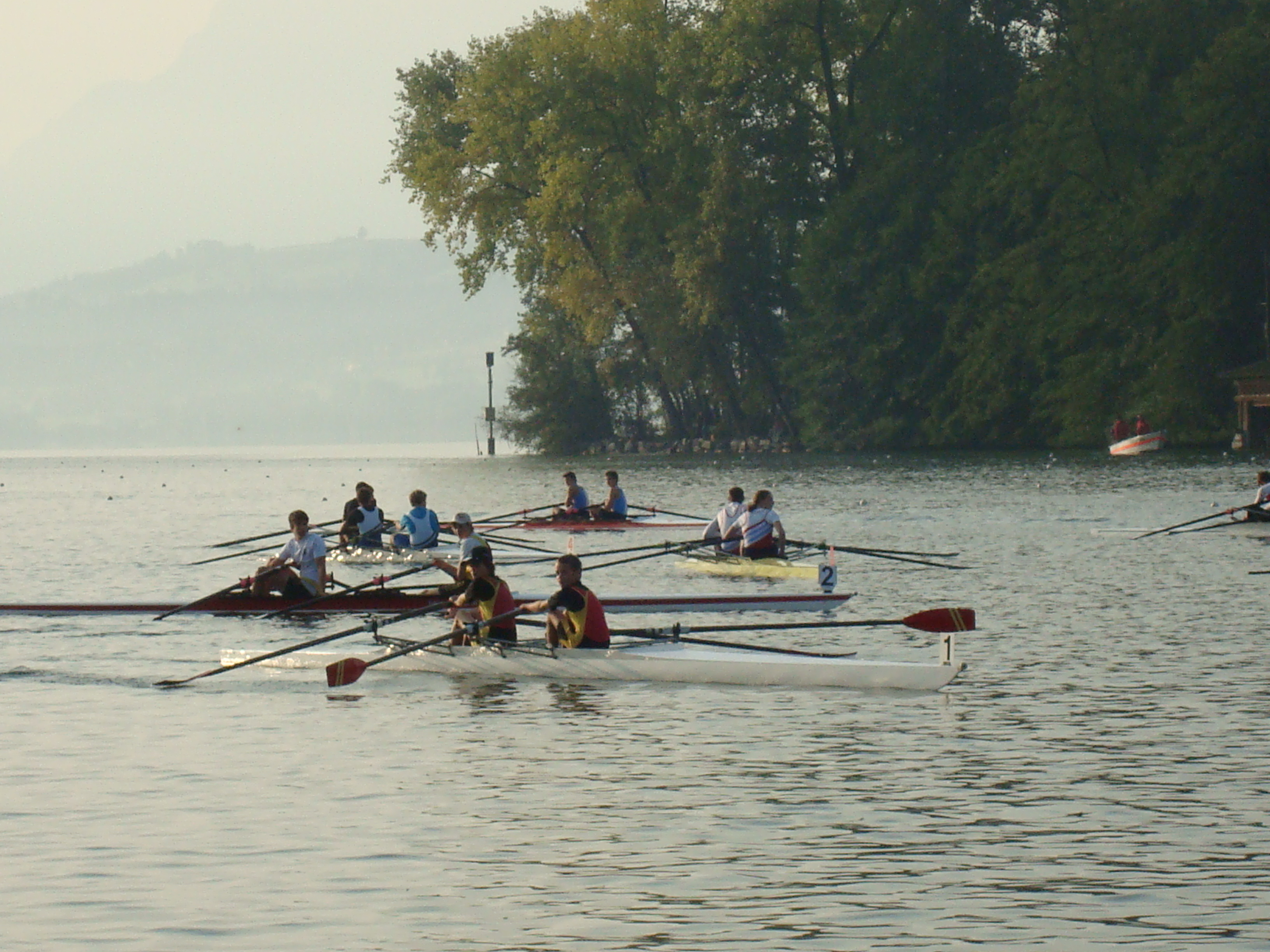 Rowing Boats in the Triechter